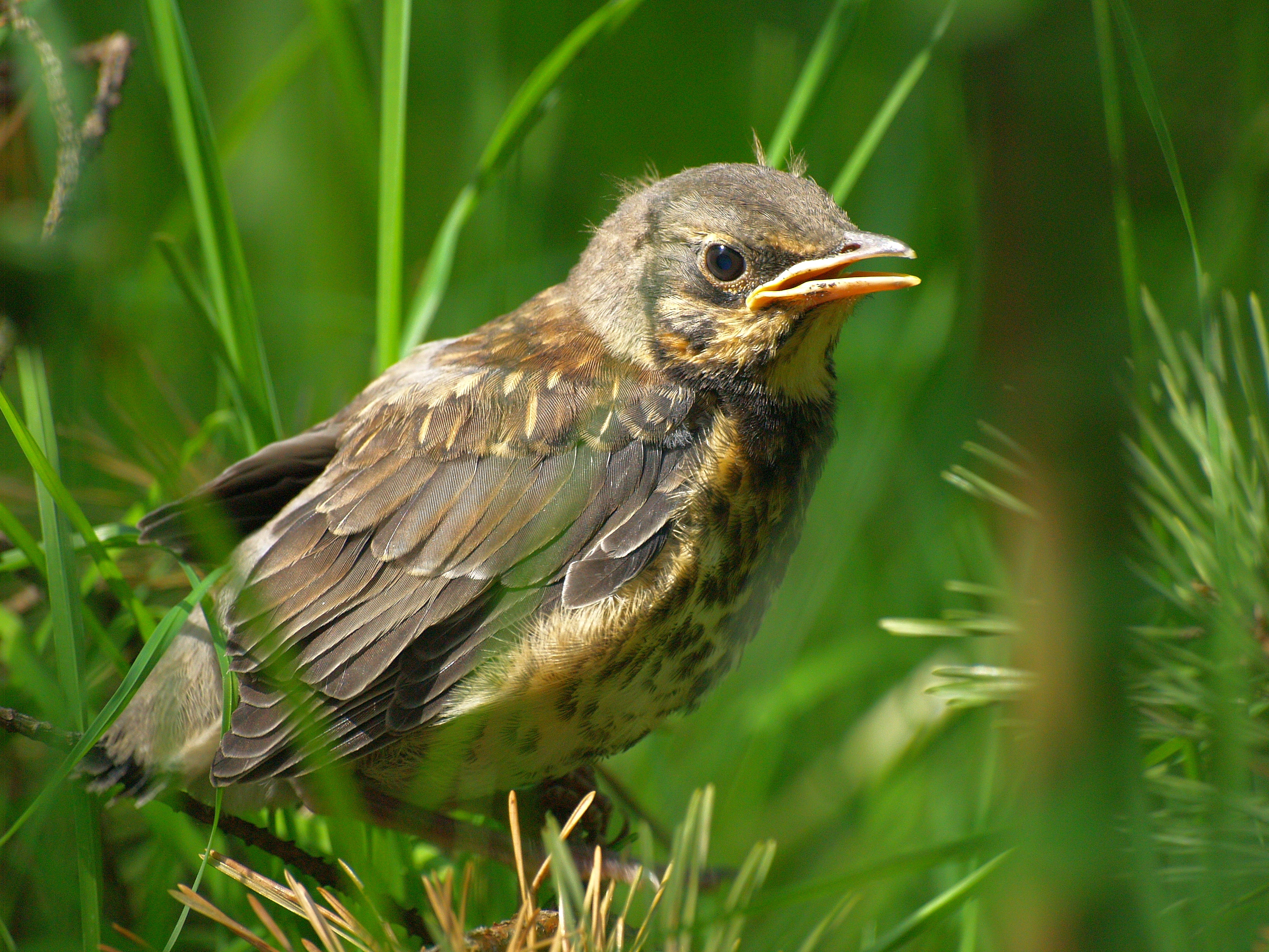 Fieldfare (Turdus pilaris)